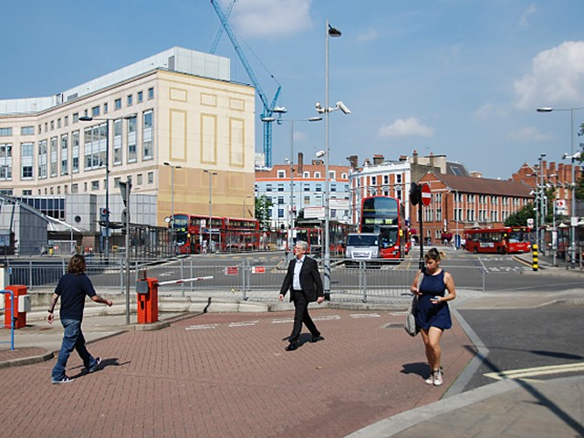 Hammersmith bus station. Comings and goings on a sunny day.